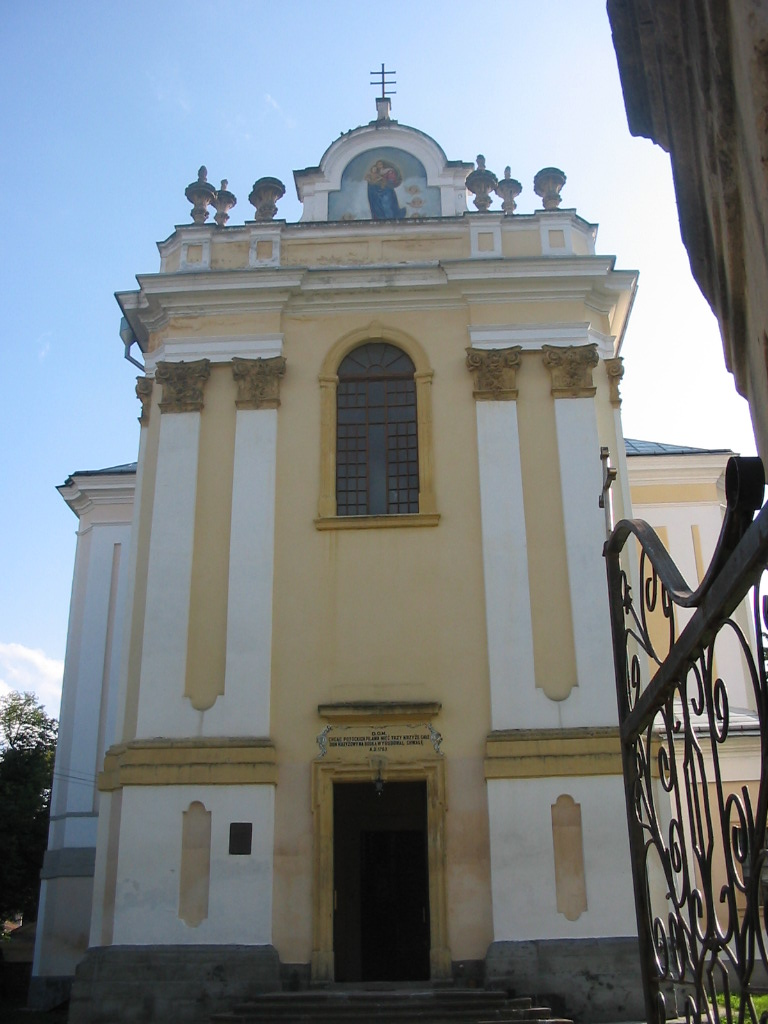 Roman Catholic Church of the Assumption of Mary, Buchach, Ternopil Oblast, Ukraine